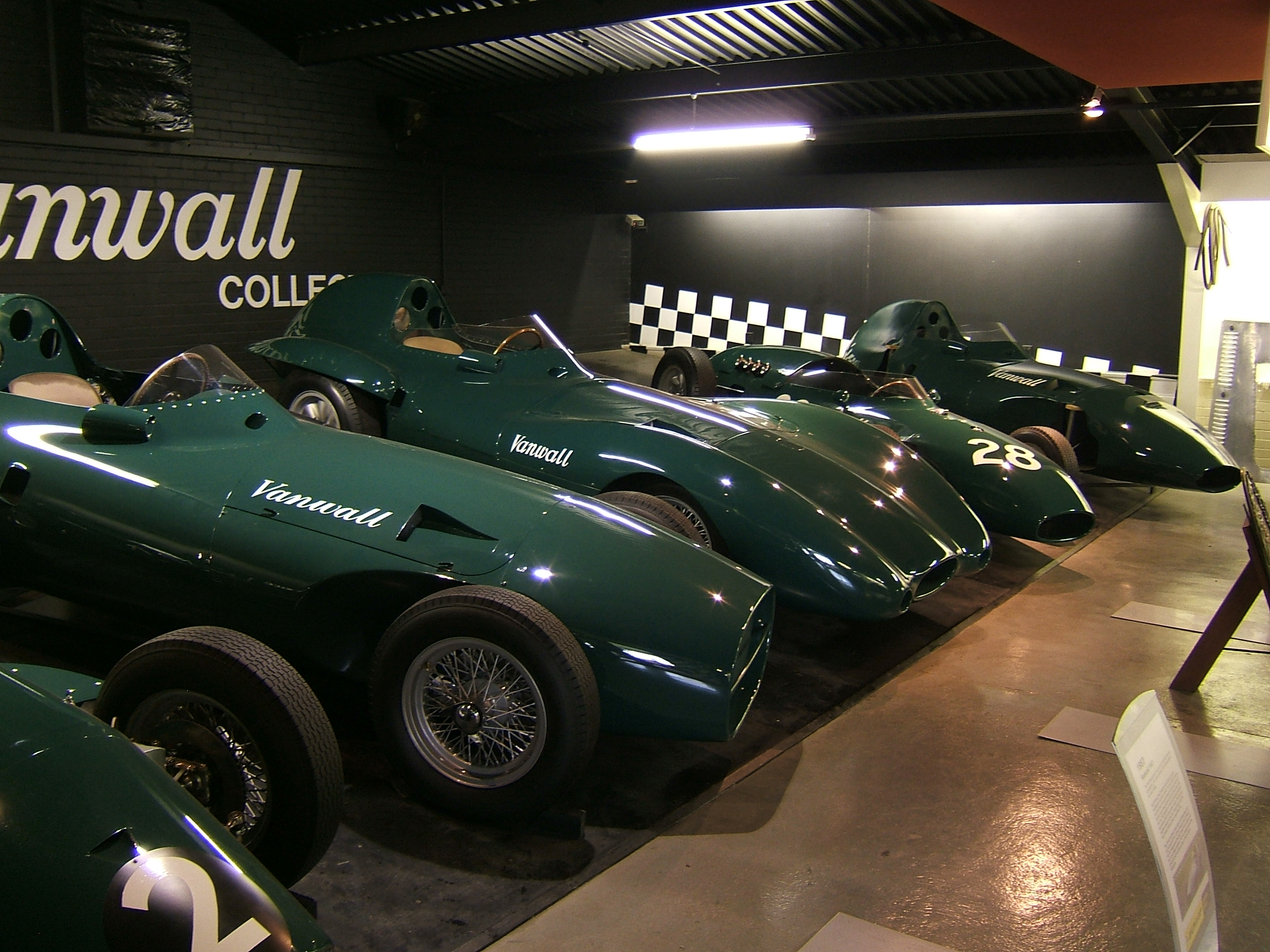 Most of the Donington Grand Prix Collection museum's Vanwall Collection. From left to right: Vanwall VW2 in 1955 bodywork; Vanwall VW7 in 1958 Monaco bodywork; Vanwall VW6 in 1957 streamlined Reims bodywork; Vanwall VW14, the 1961 rear-engined prototype; a spare standard 1956-58 body.